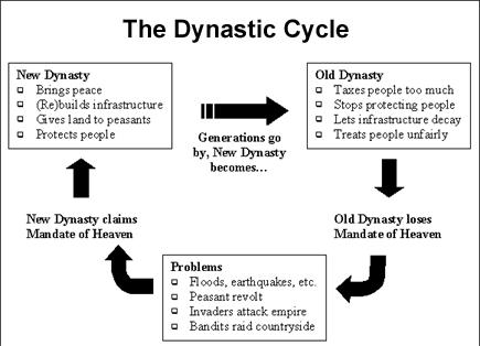 A chart describing briefly the transition from claiming to withdrawing the Mandate of Heaven